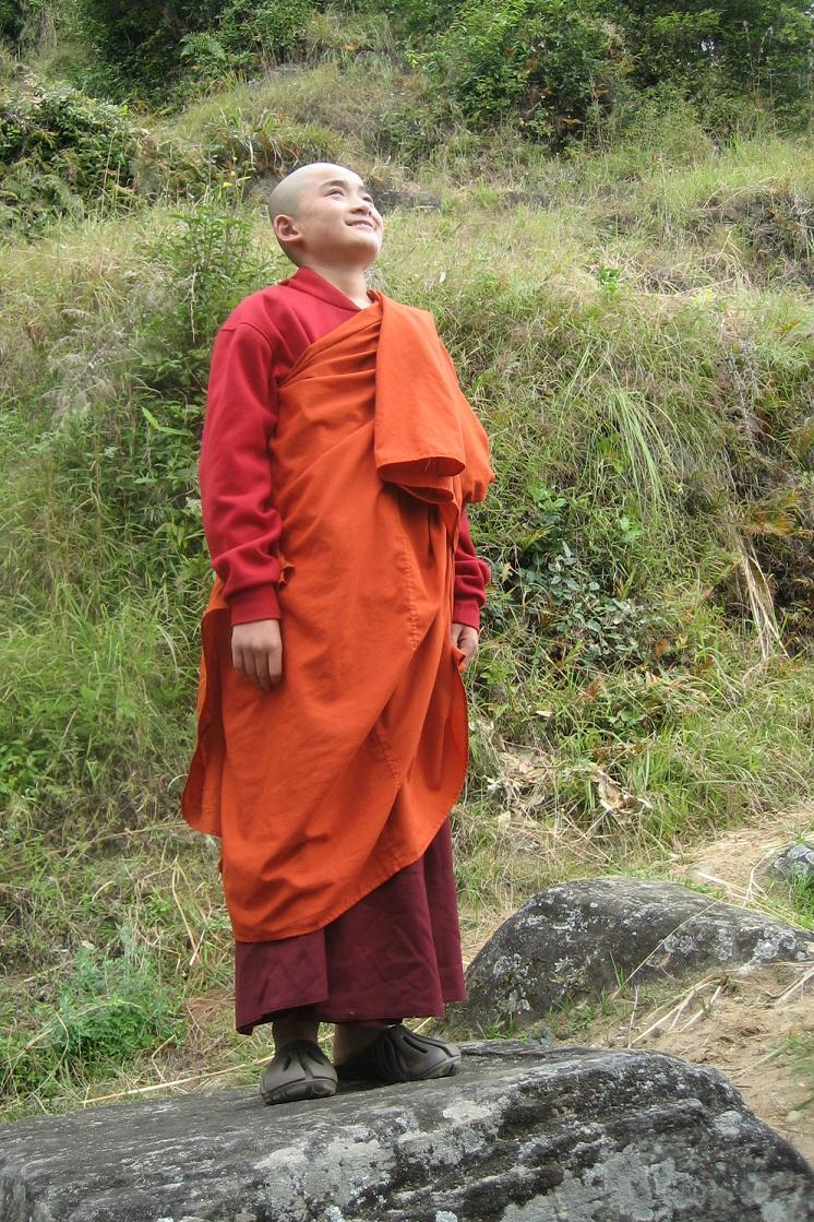 Gyelwang Tenpi Ningchey Rinpoche, reincarnation (tulku) founder of Nalanda Lhakang in Bhutan. Locally known as Daley Goenpa or Dalida Standing on Ganden viewing rock from which Ganden/ Nirvana was seen by the original rinpoche when he founded the lhakang (temple)